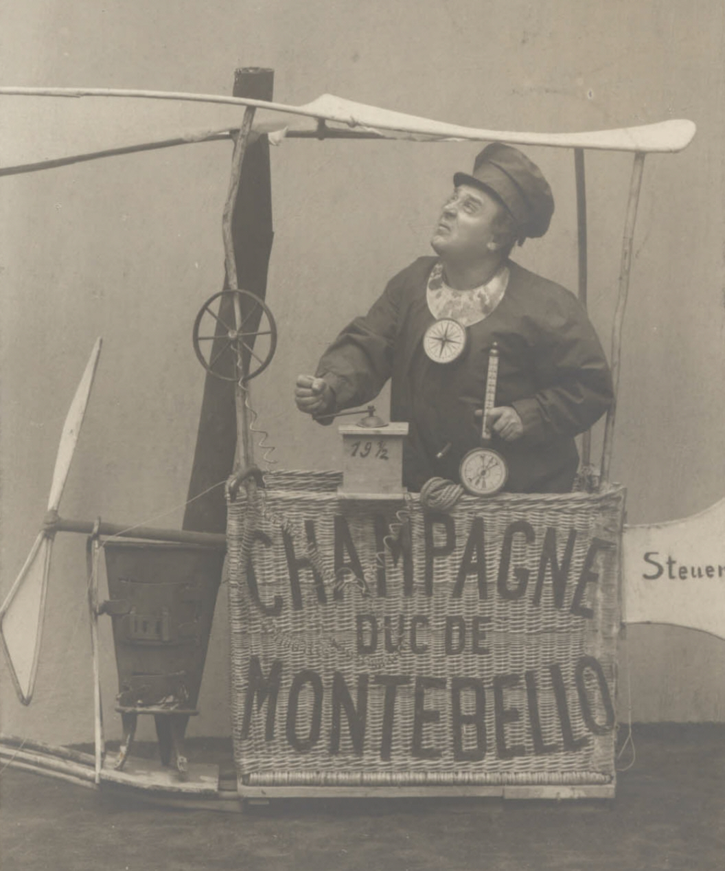 Guido Thielscher (1859-1941), German actor, in costume for the role of Zipfel in the revue Halloh!